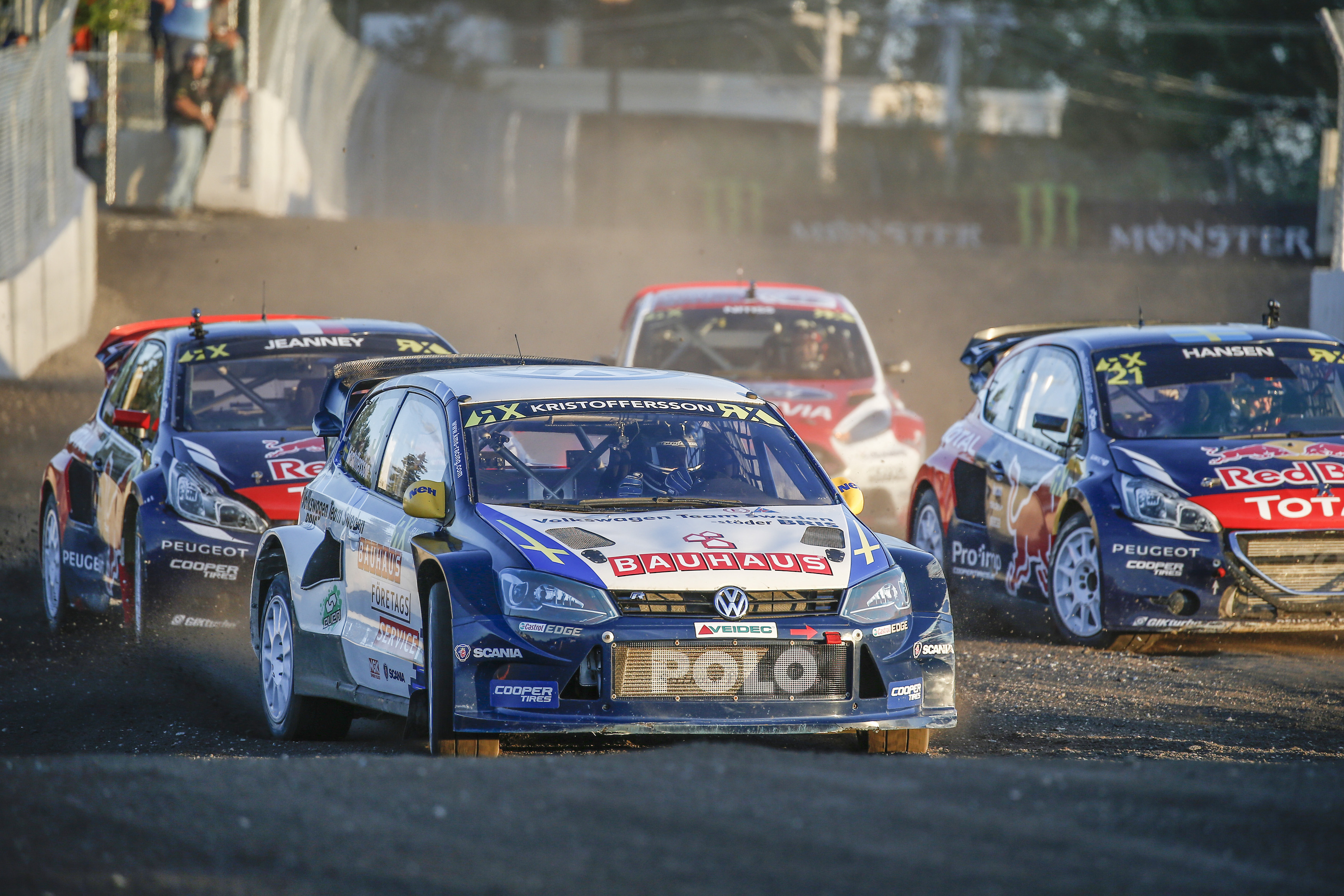 Johan Kristoffersson leads Davy Jeanney, Timmy Hansen and Reinis Nitišs at Round 7 of the 2015 World Rallycross Championship at Circuit Trois-Rivières, Canada.